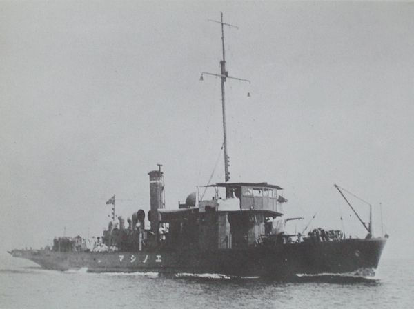 HIJMS Enoshima